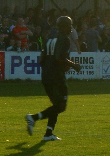 Barry Hayles. Image cropped from original at Flickr.